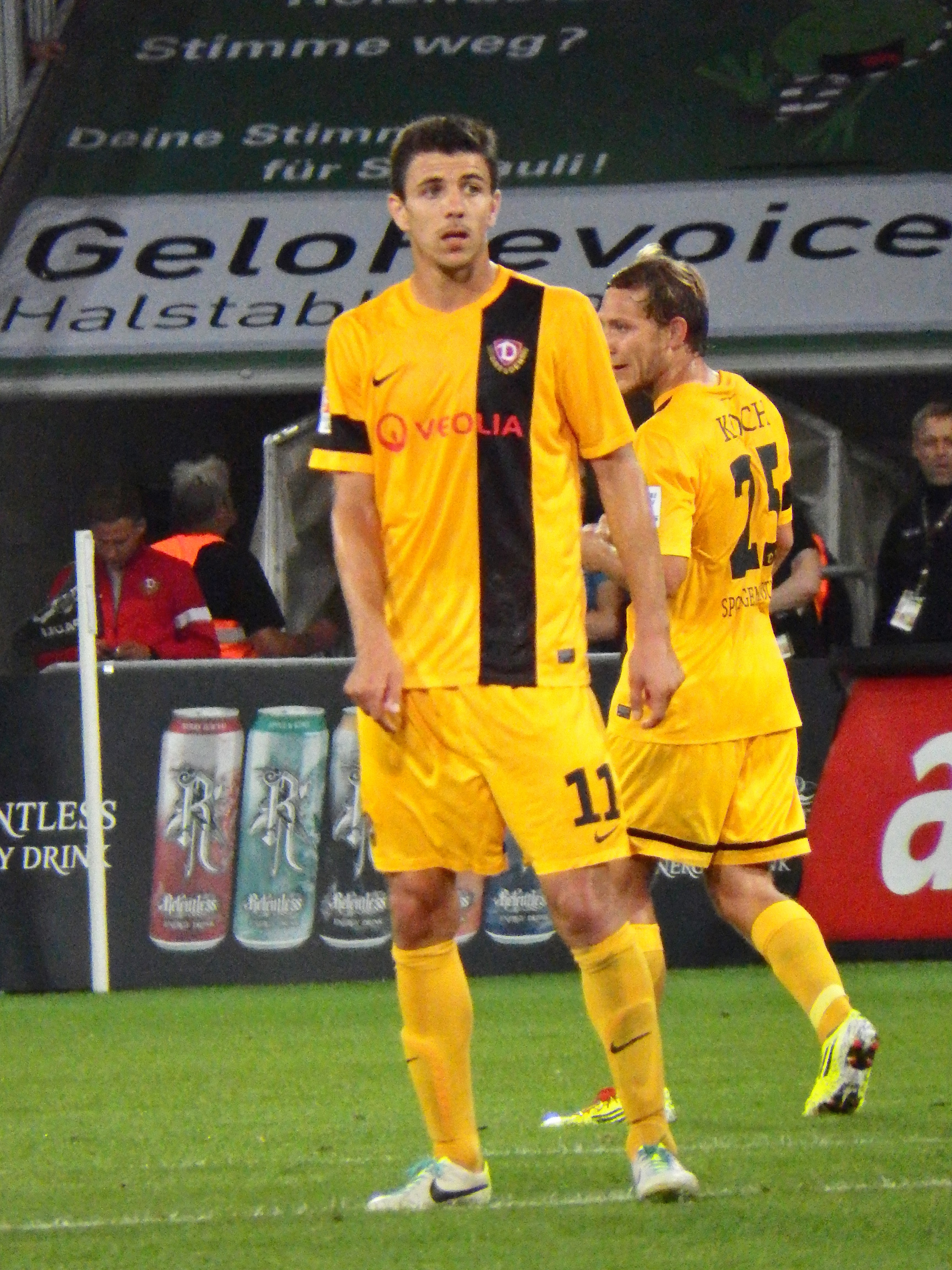 Anthony Losilla as Player of Dynamo Dresden